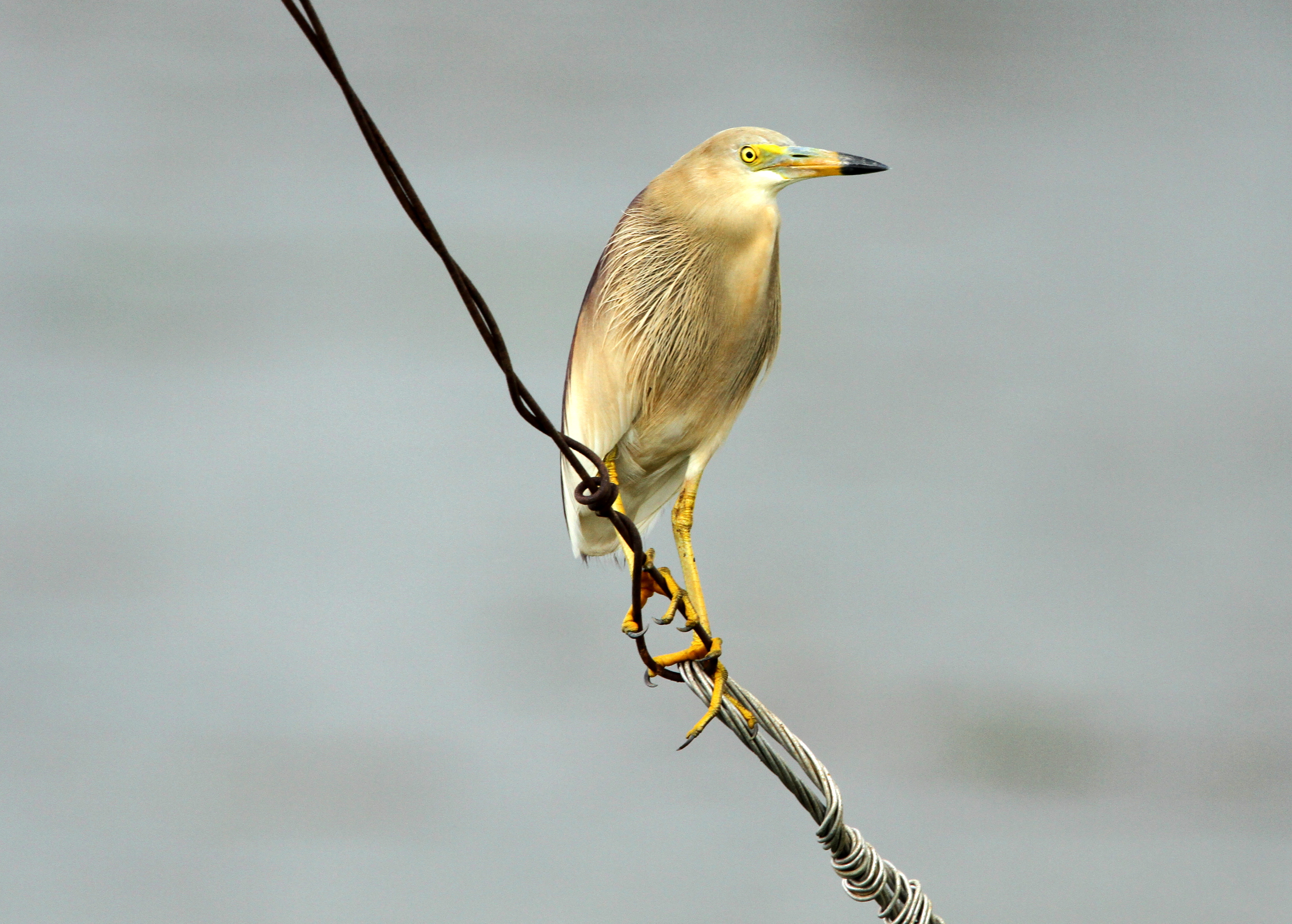 Ardeola grayii